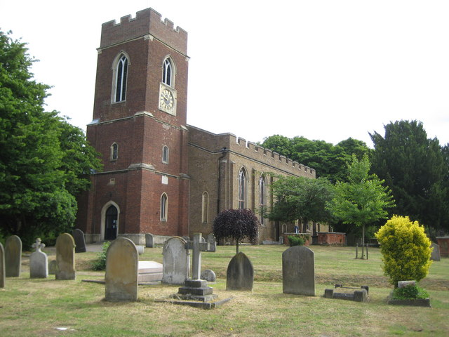 Church of England parish church of St Mary, Staines, Middlesex